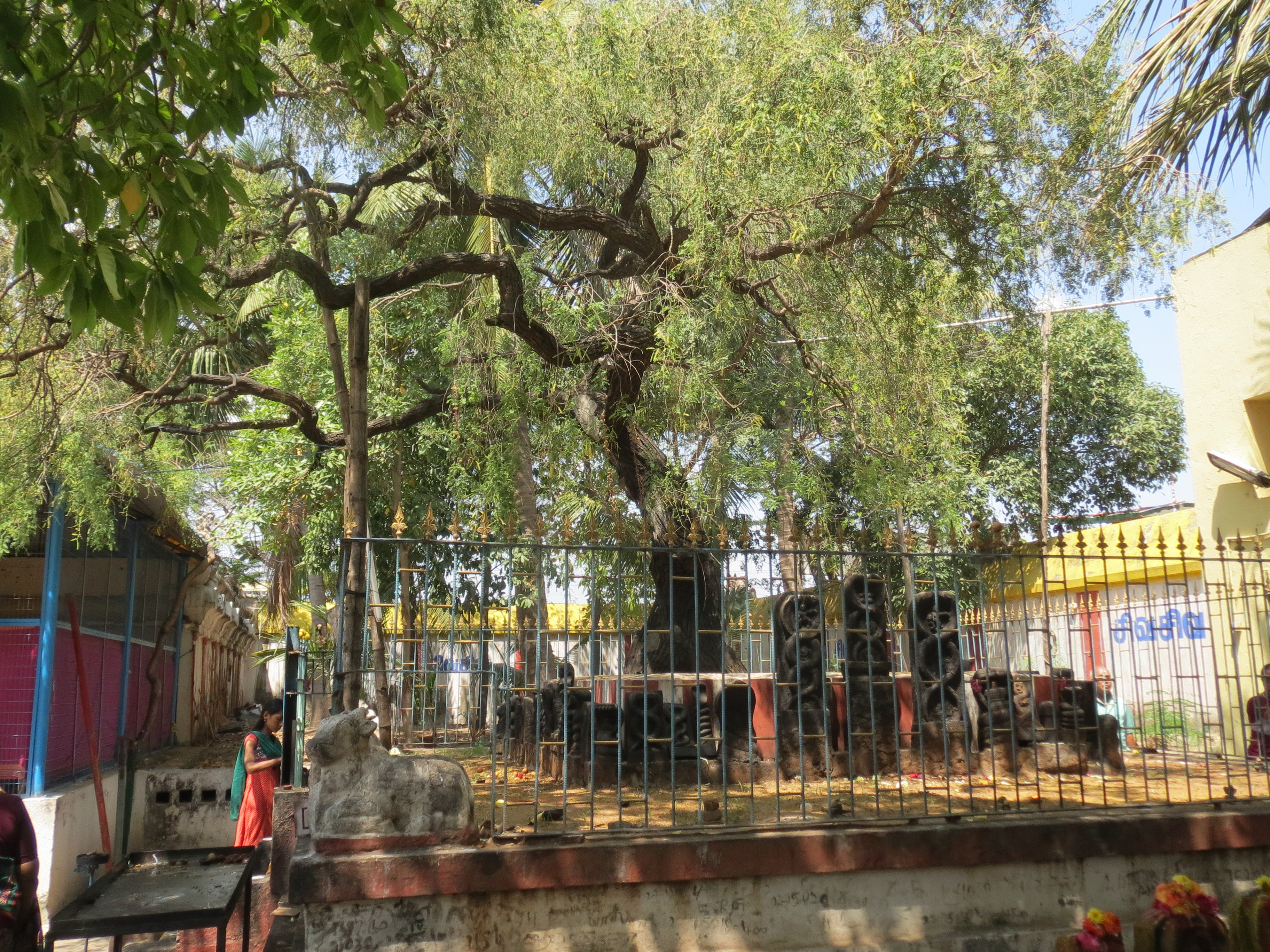 Vanni Tree at Marundeeswarar Temple